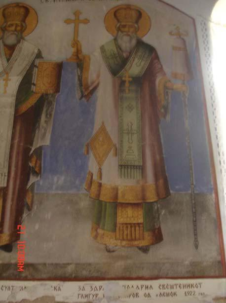 Fresco in the church of Virgin Mary in Brezno, Macedonia